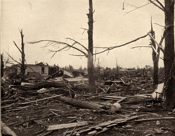 Tornado damage in the town of Mattoon, part of a severe outbreak of tornadoes that killed more than 100 people.